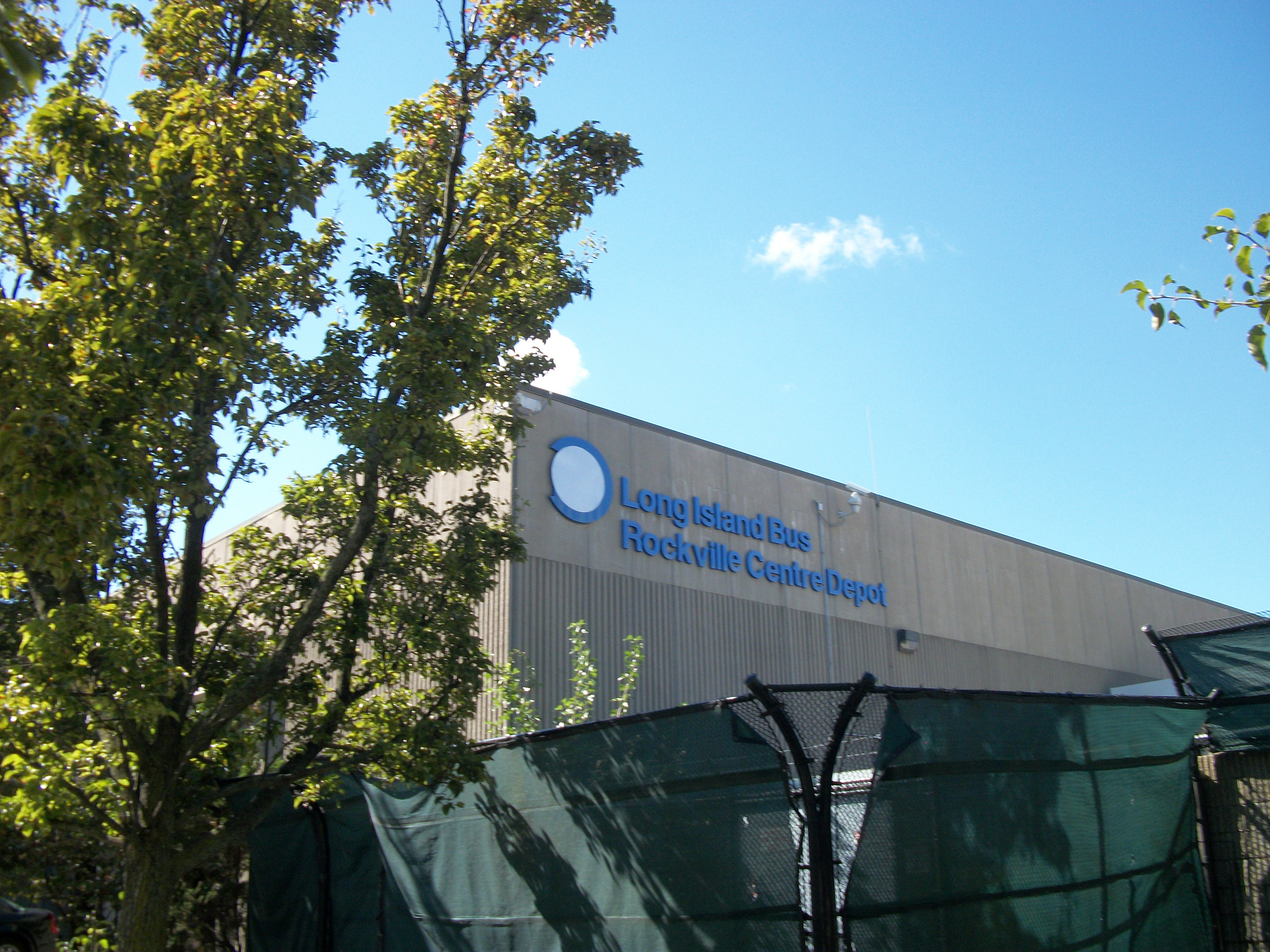 The Nassau Inter-County Express Rockville Centre Bus Depot west of Rockville Centre Railroad Station in Rockville Centre, New York. This garage was previously owned by the NYMTA's Long Island Bus division, previously the Metropolitan Suburban Bus Authority, and is now owned by Nassau Inter-County Express.